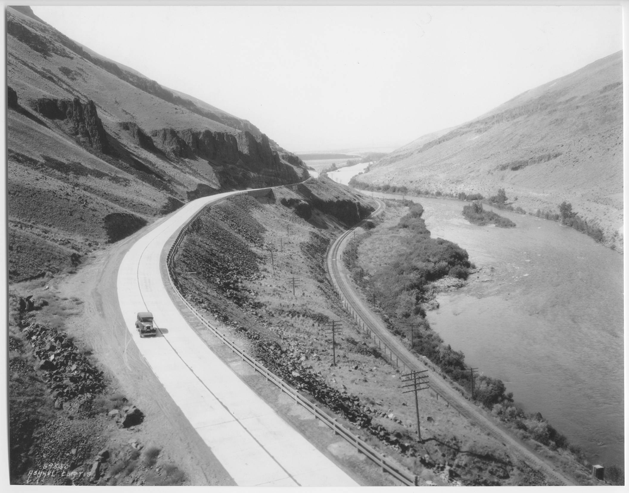 A view of the newly-built Yakima Canyon Highway (now part of State Route 821) in Kittitas County, Washington.